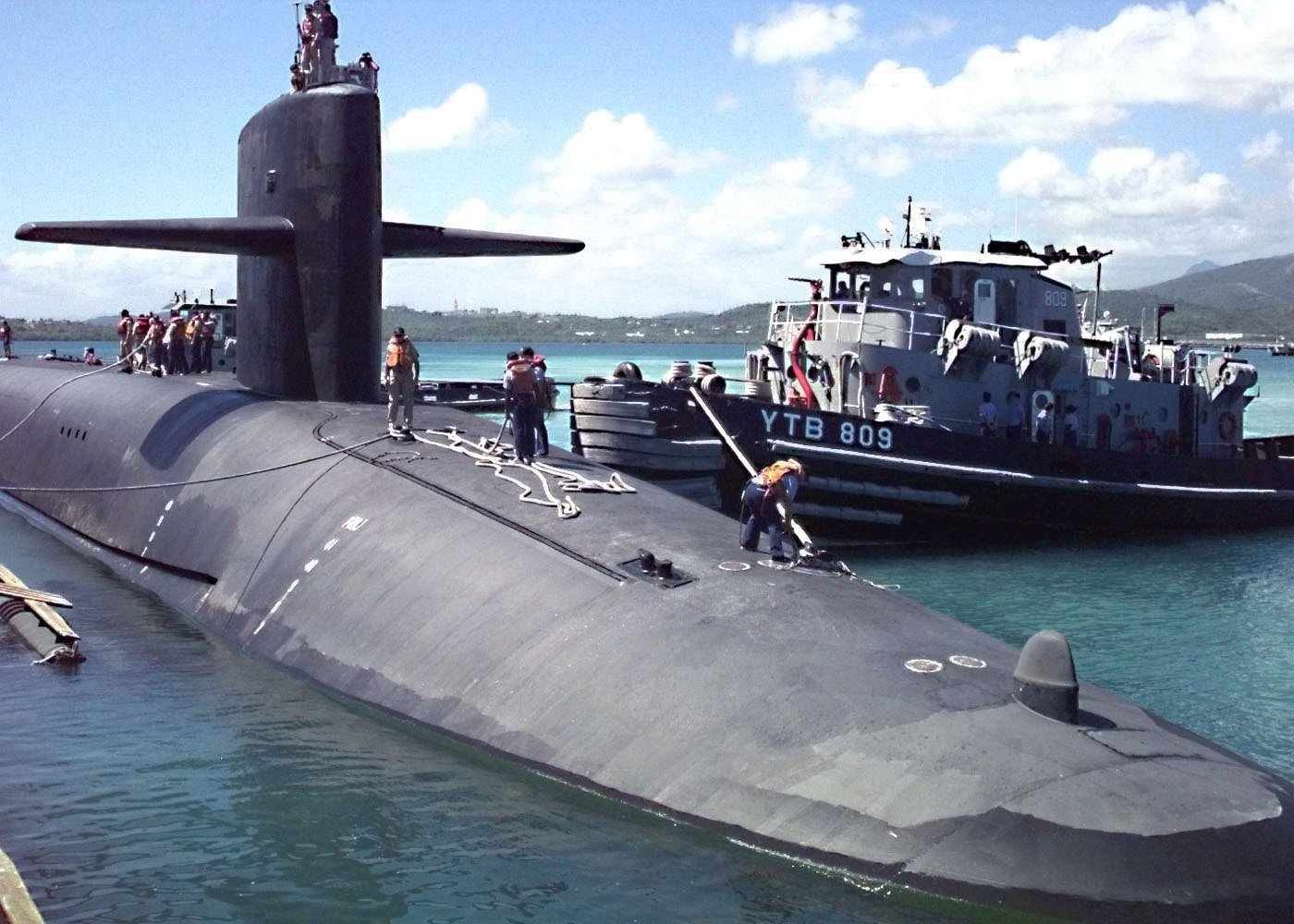 ID: DN-SD-99-05760 Service Depicted: Navy 971027-N-7479T-004 Operation / Series: GLOBAL GUARDIAN `98 Ohio class submarine USS MARYLAND (SSBN-738) pulls into the naval station, assisted by a tug boat, in support of the joint military exercise GLOBAL GUARDIAN '98. Location: NAS, ROOSEVELT ROADS, PUERTO RICO (PR) UNITED STATES OF AMERICA (USA)